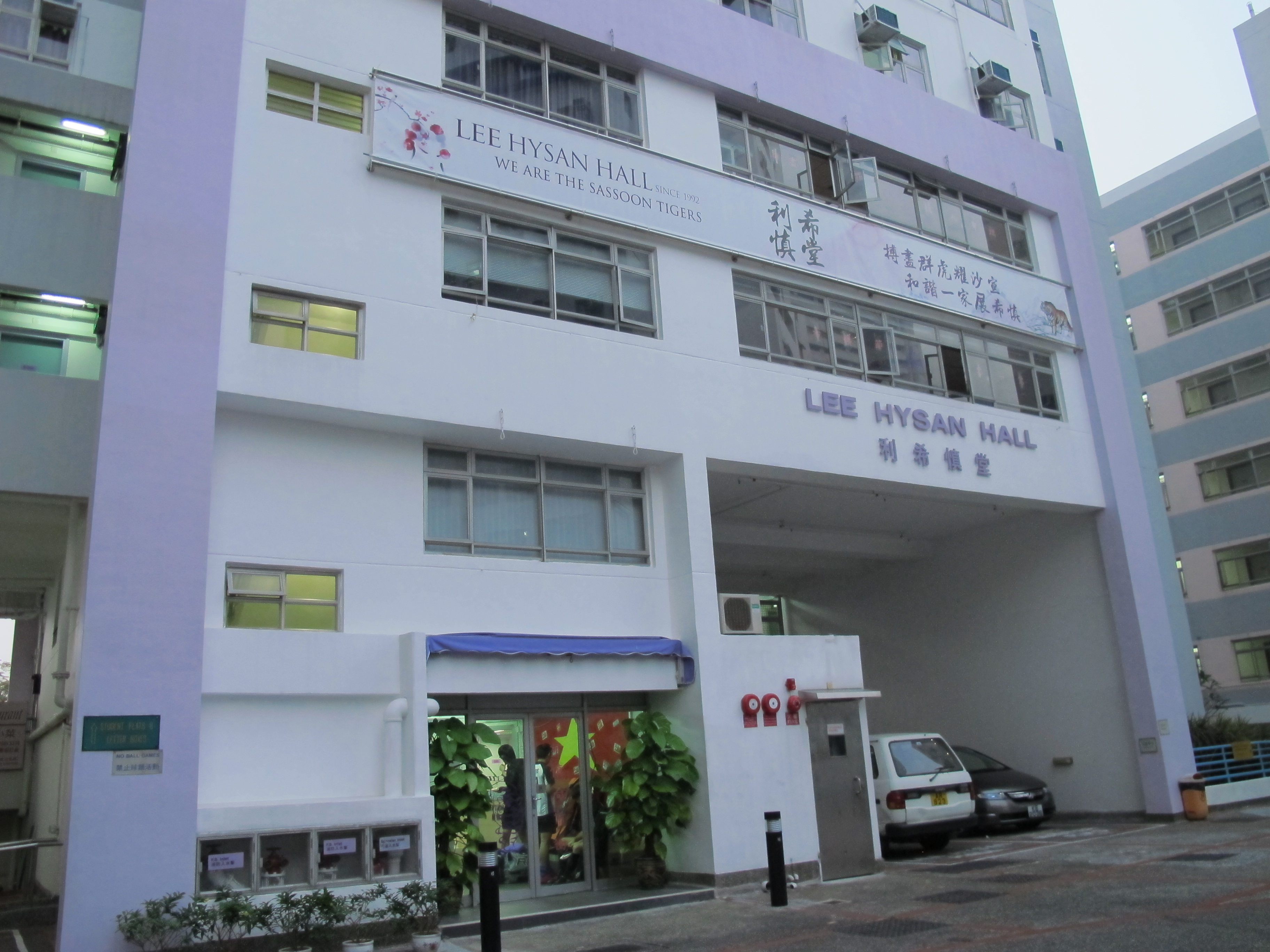 front entrance of hysan